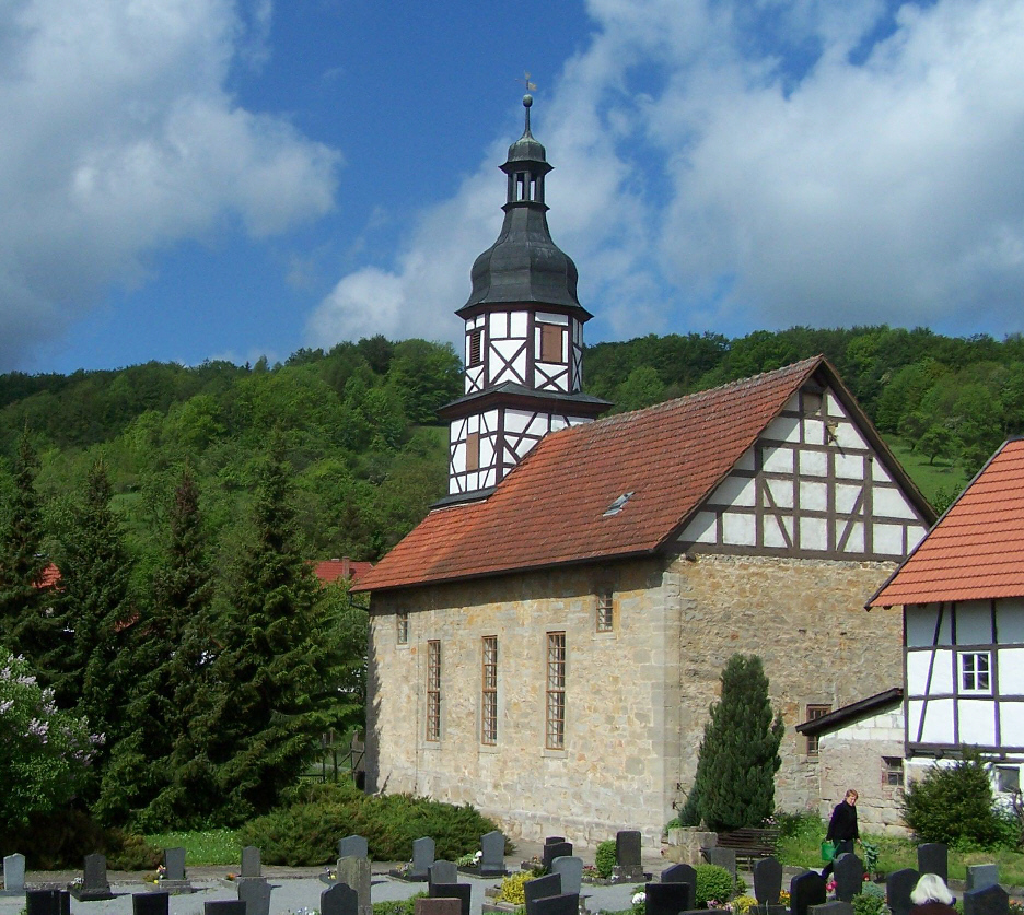 The church in Hallungen.